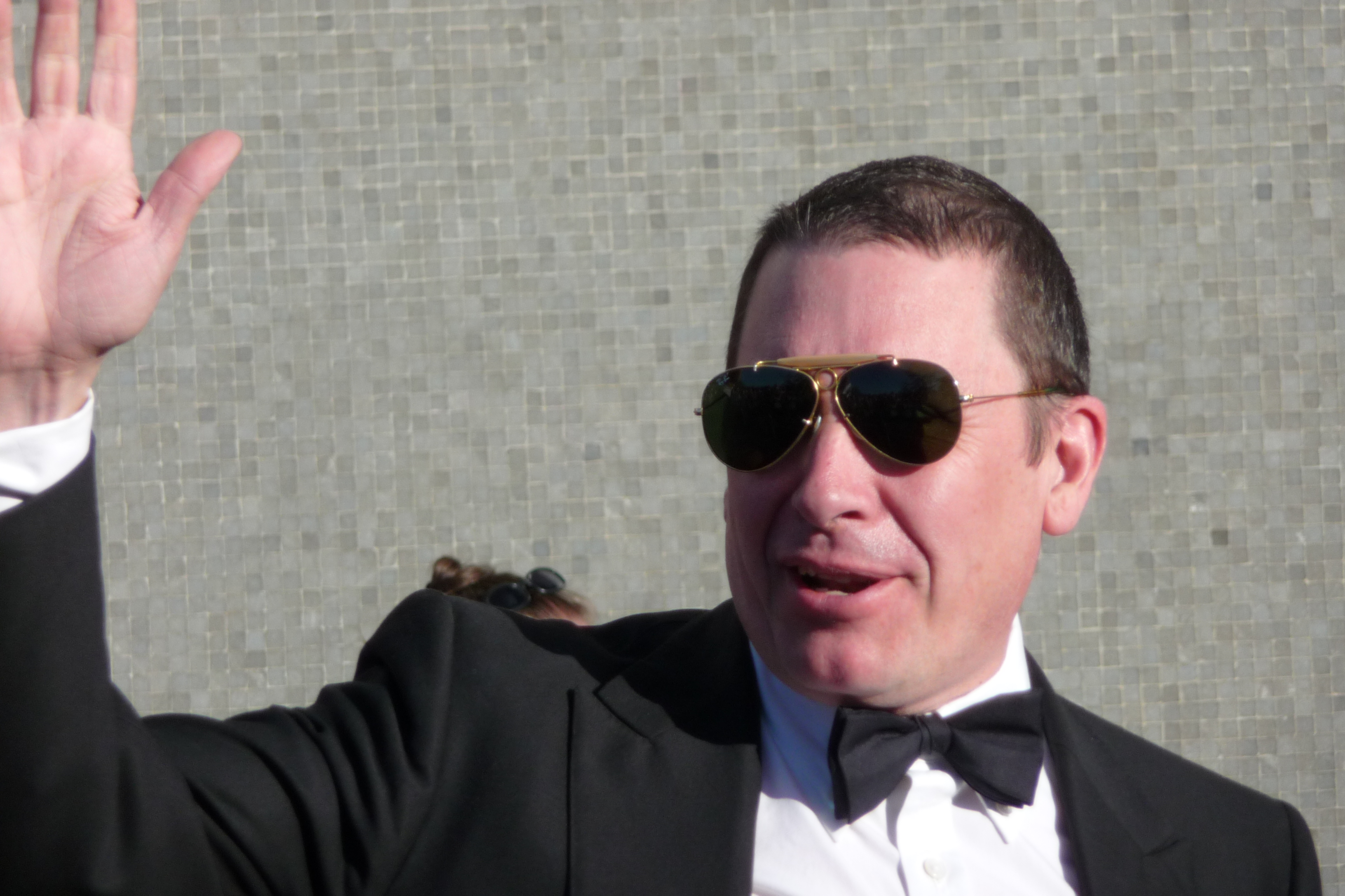 Jools Holland at the 2009 BAFTAs